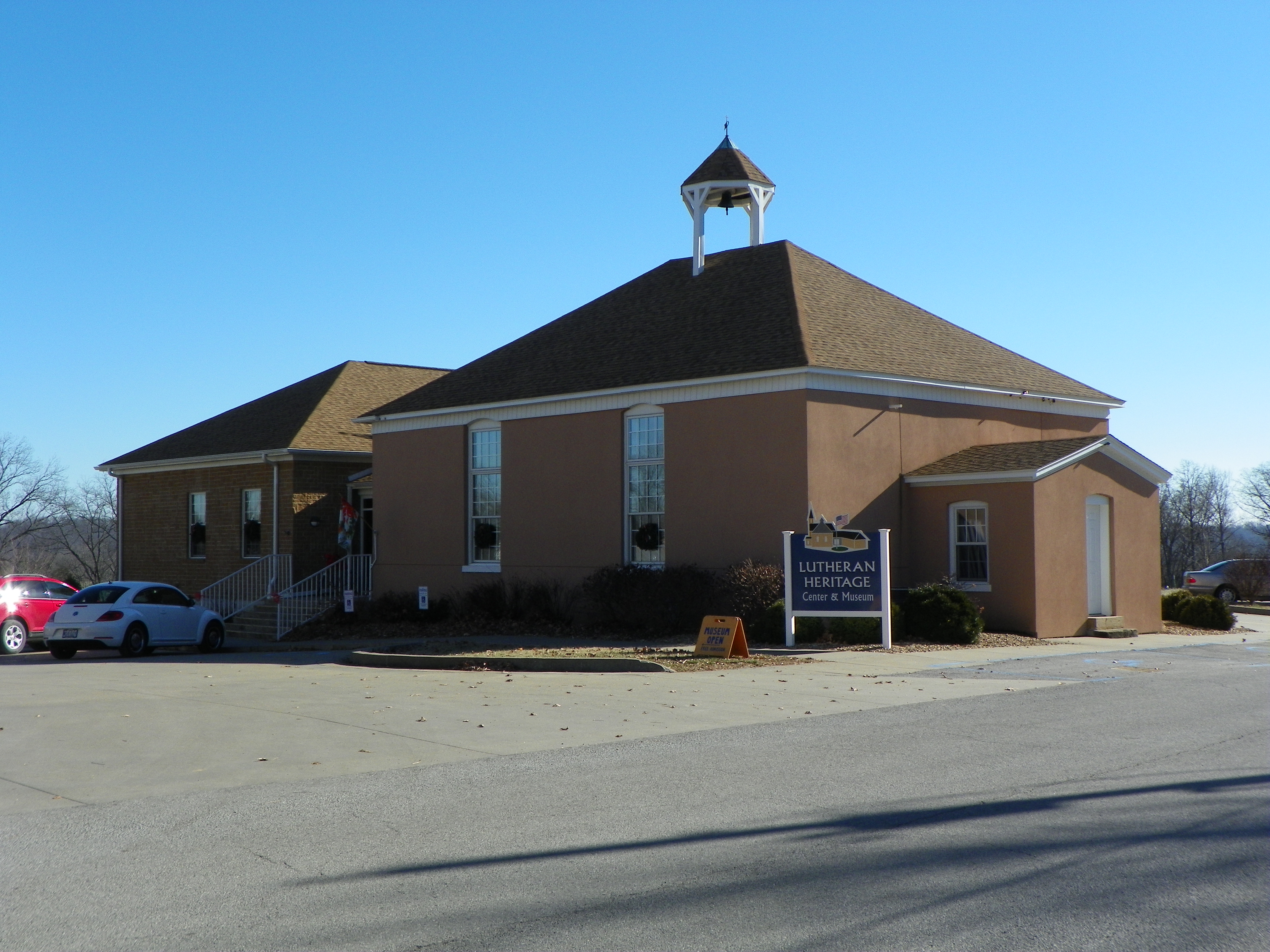 Trinity Lutheran Church Saxon museum, Altenburg, Missouri